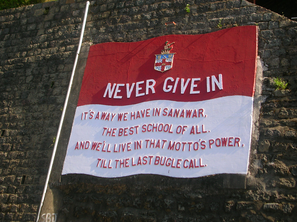 The Lawrence School ,Sanawar,Kasuali,founded in 1847.